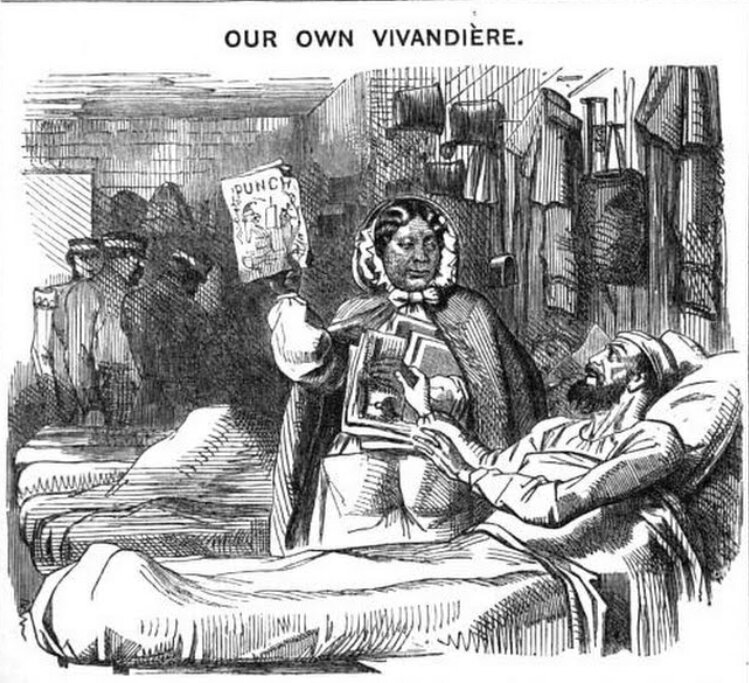 In this cartoon, Punch mocks Seacole's public appeals for aid and professed admiration for their magazine, and downplays her nursing activities in the Crimean War by describing her as a vivandière, or "canteen keeper."